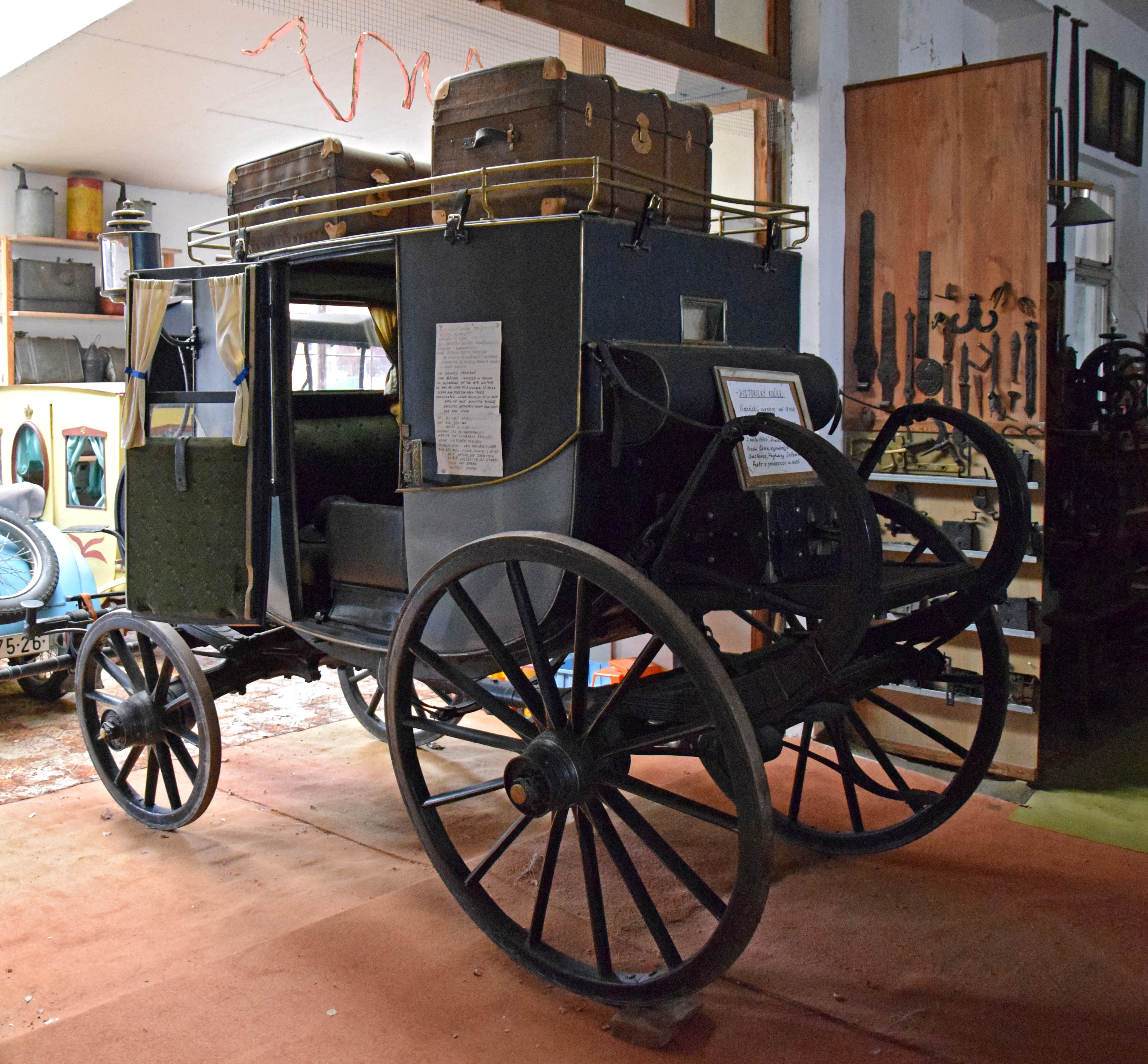 A carriage from the beginning of the 18 century, type Berlin, in the Museum of historical vehicles, agricultural technology and crafts in Pořežany, České Budějovice District, the Czech Republic. The carriage appeared in several fairytale films.